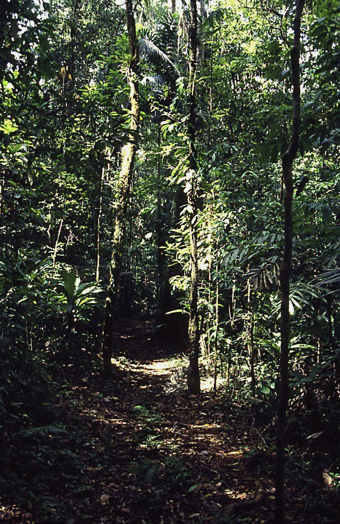 Pacific Low Land Rain Forest, Parque Nacional Corvocado, Costa Rica, March 1995. Foto taken by Klemens Steiof, Potsdam, Germany.